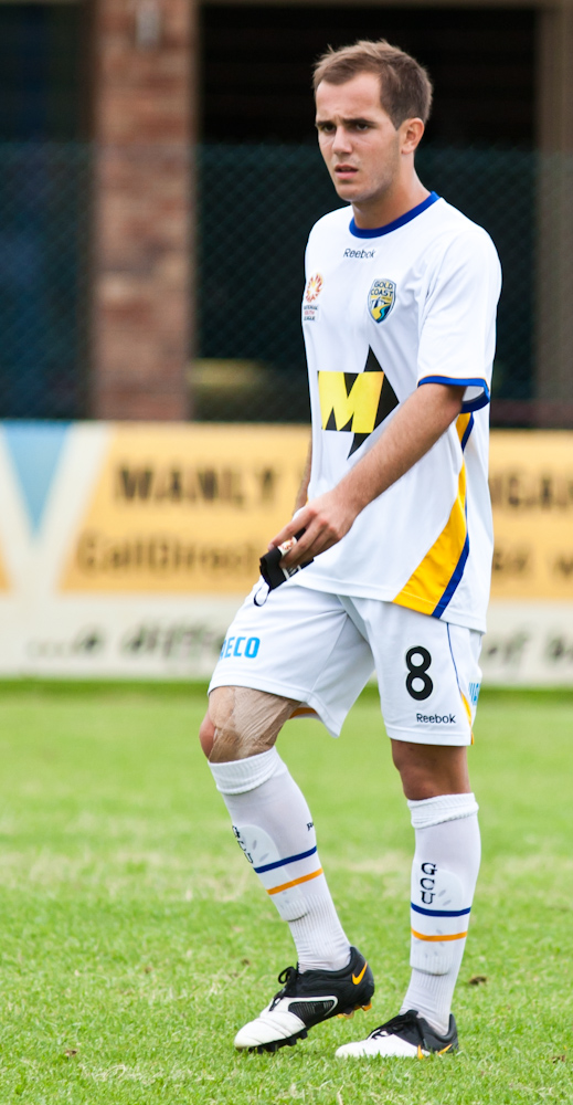 Steven Lustica playing for the Gold Coast United youth team.